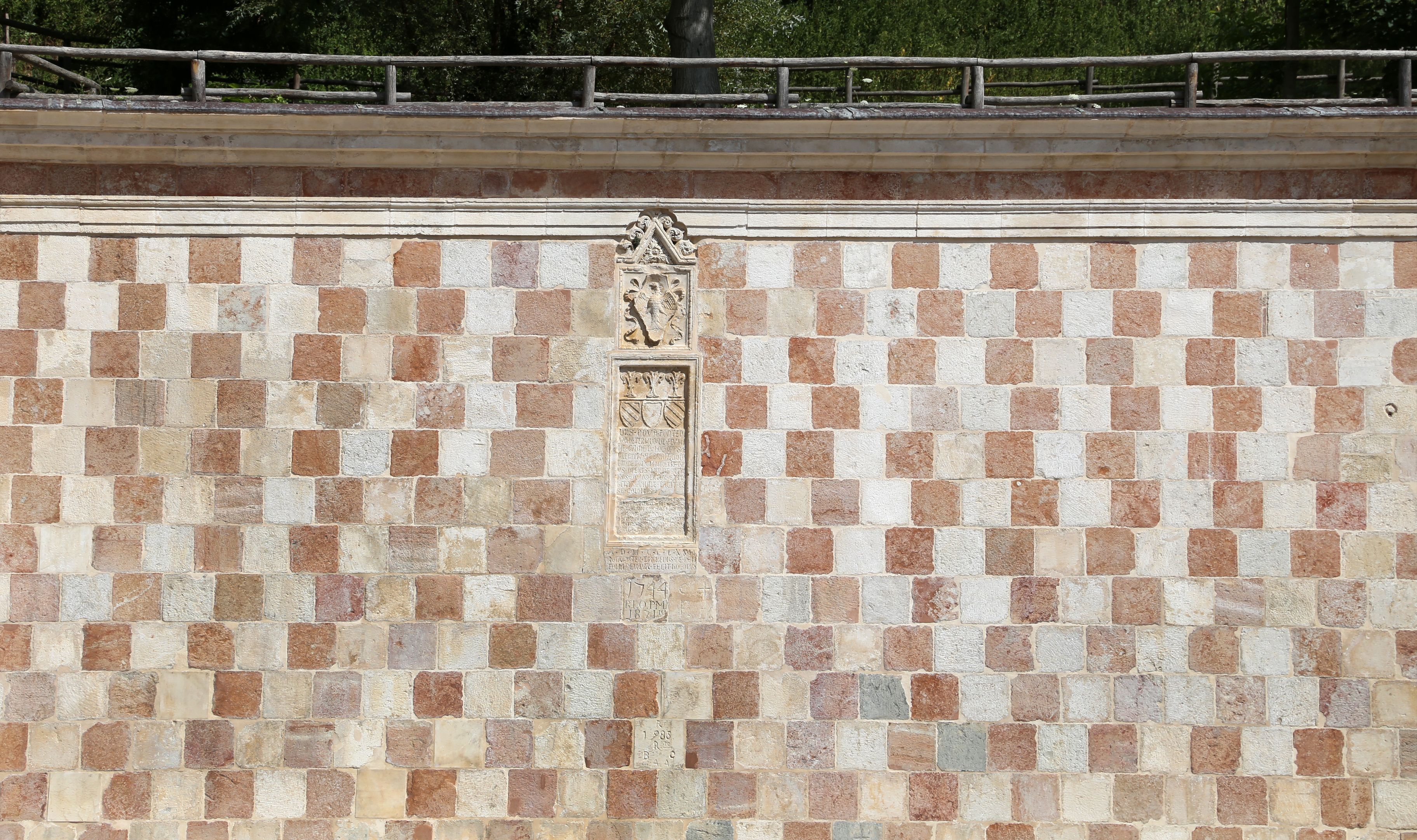 Fontana delle 99 cannelle (L'Aquila)